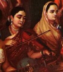 Woman playing the Carnatic violin.